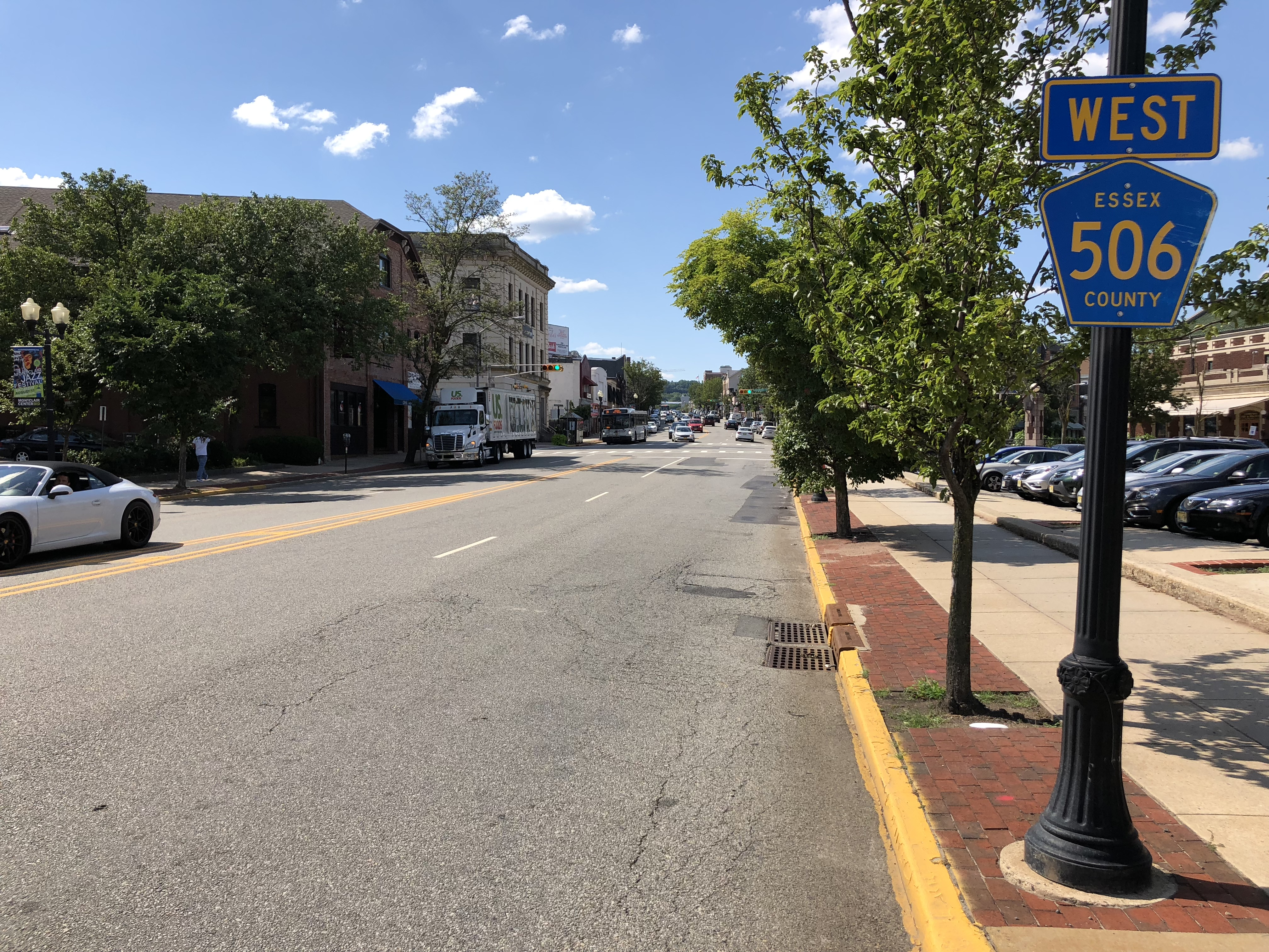 View west along Essex County Route 506 (Bloomfield Avenue) just west of Essex County Route 668 (Elm Street) and Essex County Route 623 (Grove Street) in Montclair Township, Essex County, New Jersey